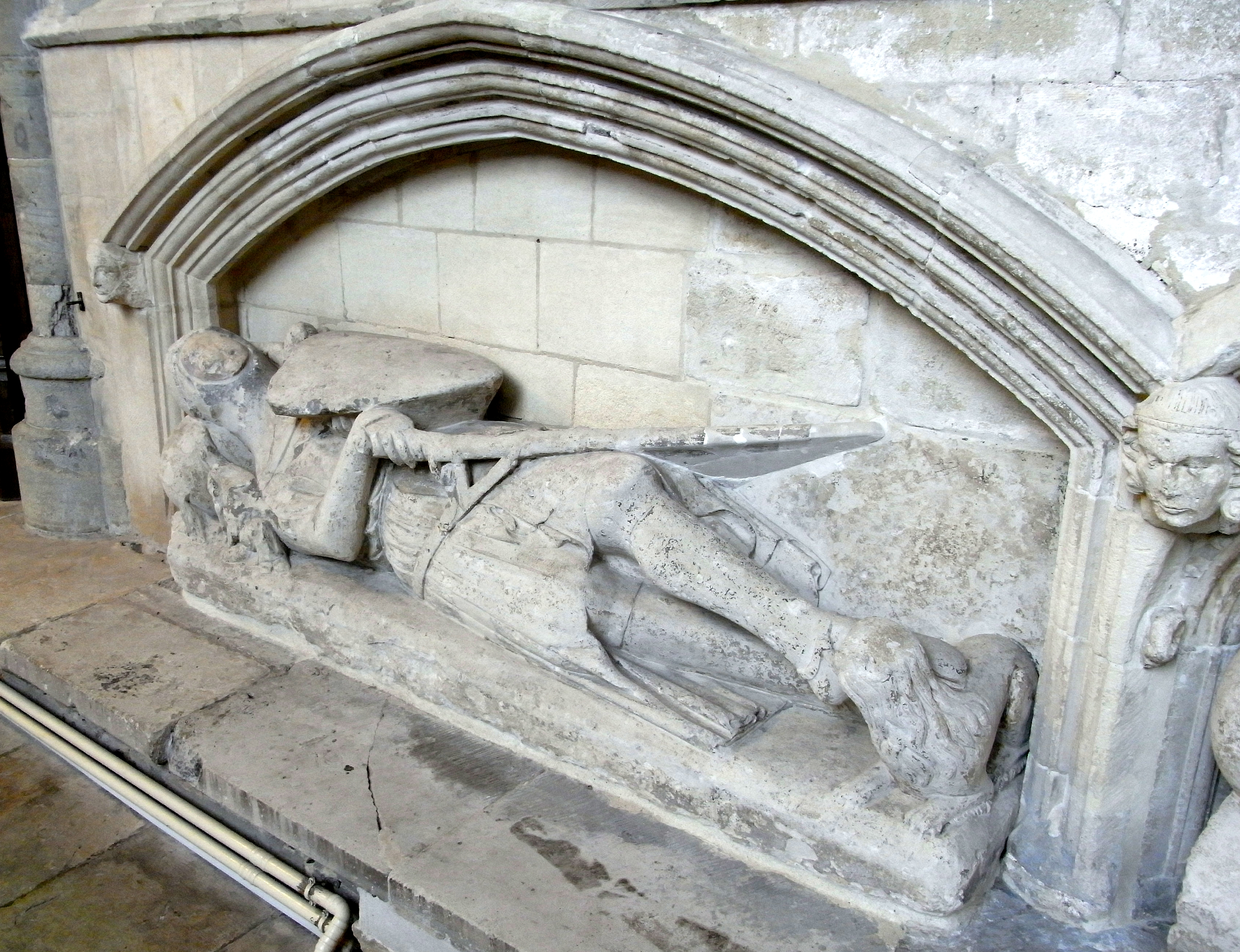 Effigy commonly supposed to represent Henry de Raleigh (d.1301), north wall of south choir aisle, Exeter Cathedral, Devon (per Orme, Nicholas, "Whose Body?", published in "The Cathedral Cat, Stories from Exeter Cathedral", 2008, p.25, who identifies Raleigh as the left-most (western-most) of two similar effigies. Pevsner, Buildings of England: Devon, 2004, p.381 identifies him as the right-most)